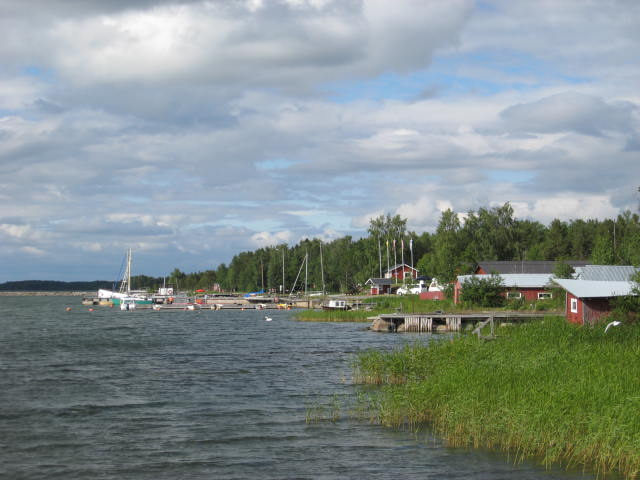 Kilen harbour in the village of Sideby, Kristinestad (Kristiinankaupunki in Finnish), Finland.